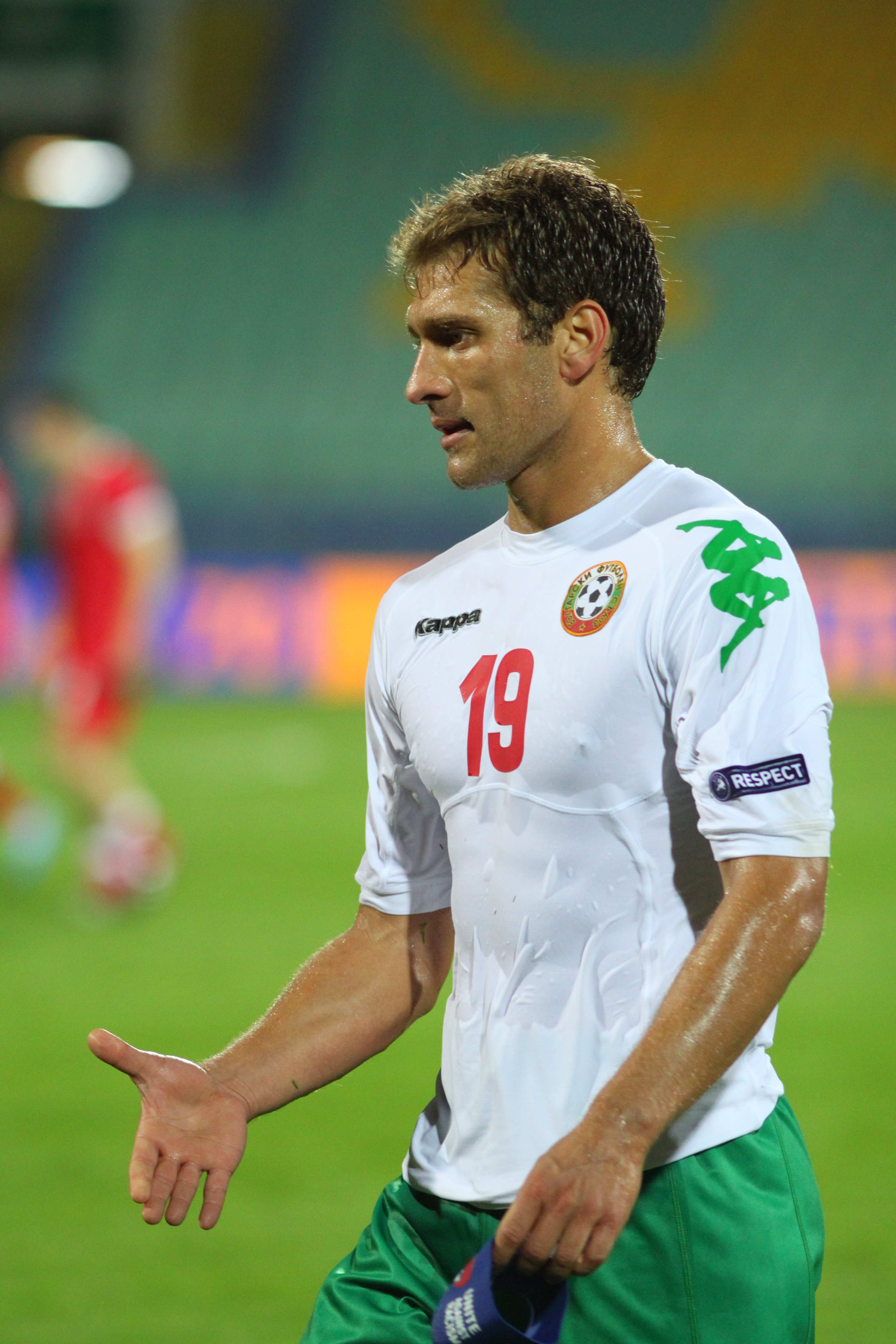 Stiliyan Alyoshev Petrov (Bulgarian: Стилиян Альошев Петров, born 5 July 1979) is a Bulgarian former professional footballer who played as a midfielder. Petrov joined Celtic from CSKA Sofia in 1999, and won ten trophies in his time at Celtic Park, including four Scottish Premier League titles. In 2006, he moved to Aston Villa in the Premier League, along with his former manager Martin O'Neill. Petrov became club captain at Villa Park, and was an inductee to the Aston Villa Hall of Fame in 2013. In addition he is Bulgaria's all-time most-capped player with 105 appearances for the side.